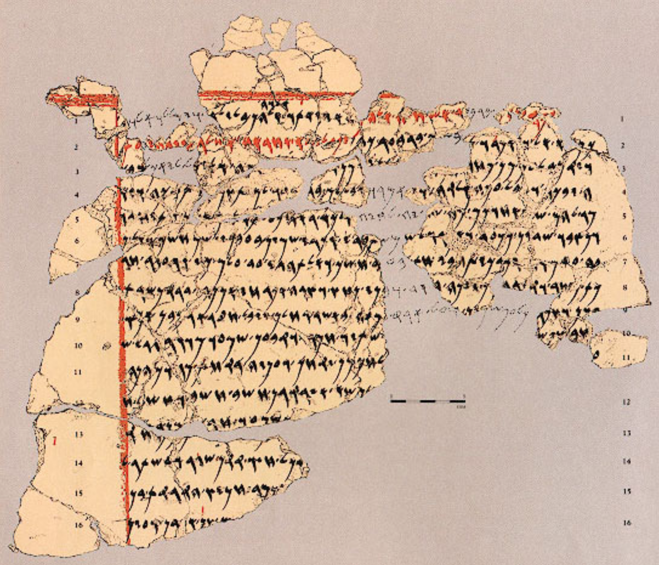 Transcription from Deir 'Alla inscription